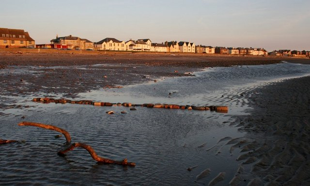 Prestwick From the Beach Sunset at low tide.